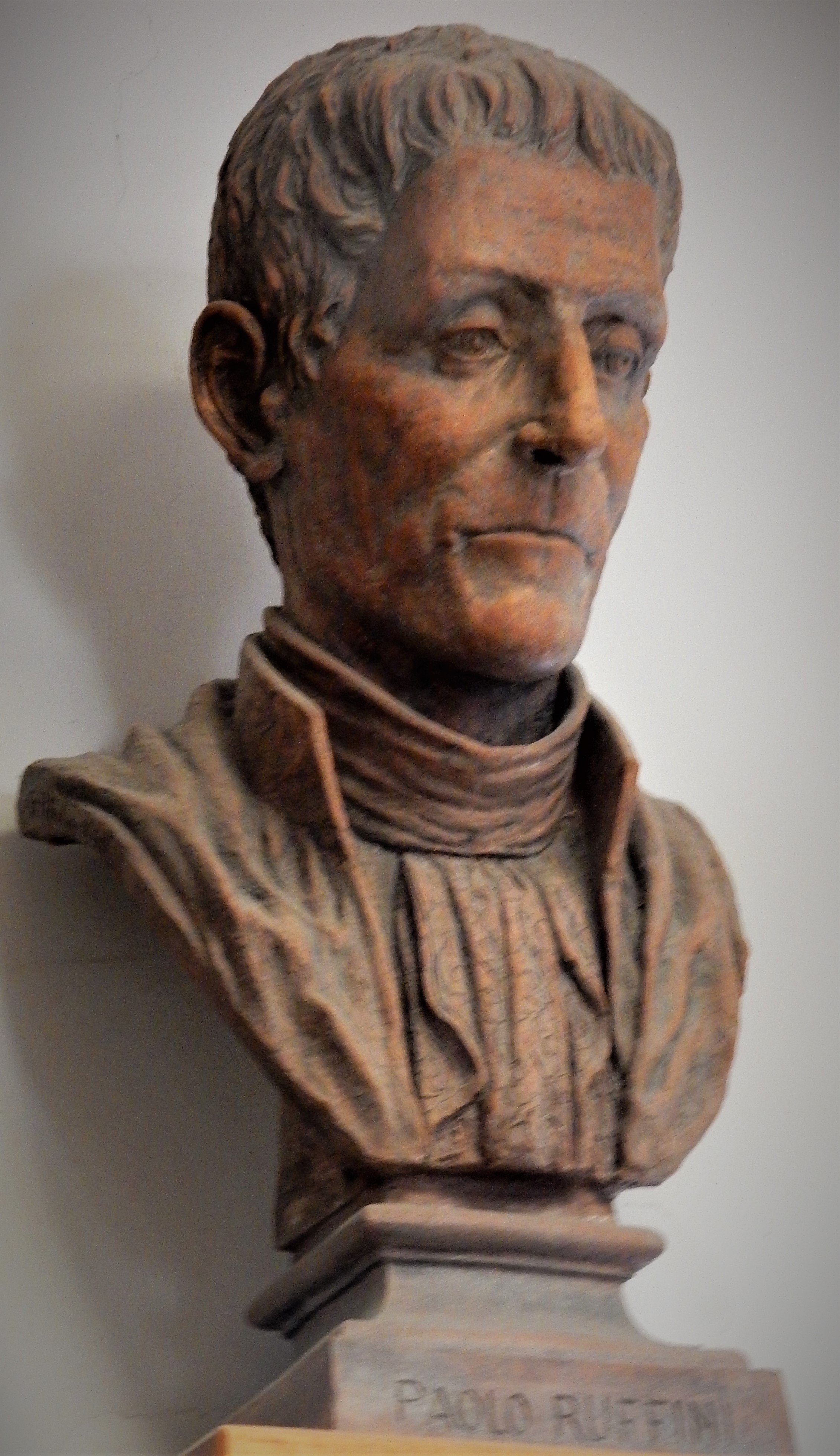 Paolo Ruffini